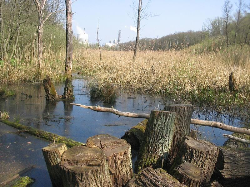 Central northern part of the the Fließwiese Ruhleben. The Fließwiese Ruhleben (Fließwiese german for: Flowmeadow) is a bog, nature reserve (german: Naturschutzgebiet), Habitats directive and part of the ecological network of protected areas of the European Union Natura 2000 in Berlin-Ruhleben in the district Charlottenburg-Wilmersdorf, Berlin, Germany. Geological and biogeographical its a part of the hill-landscape from the last glacial period Murellenberge, Murellenschlucht and Schanzenwald.